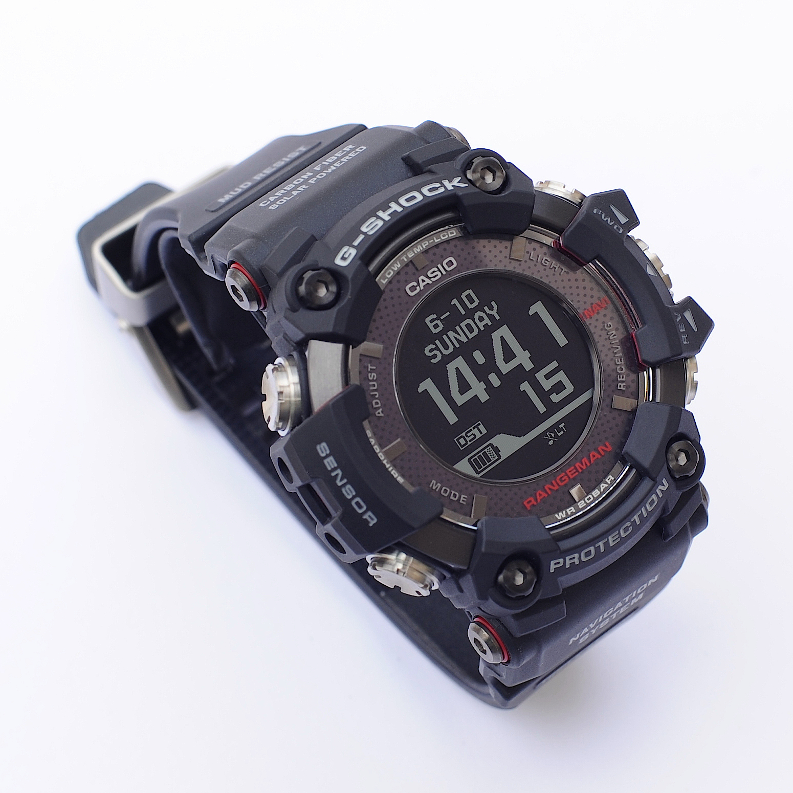 This picture shows the model Casio Rangeman GPR-B1000-1ER from the line G-Shock - Master of G.